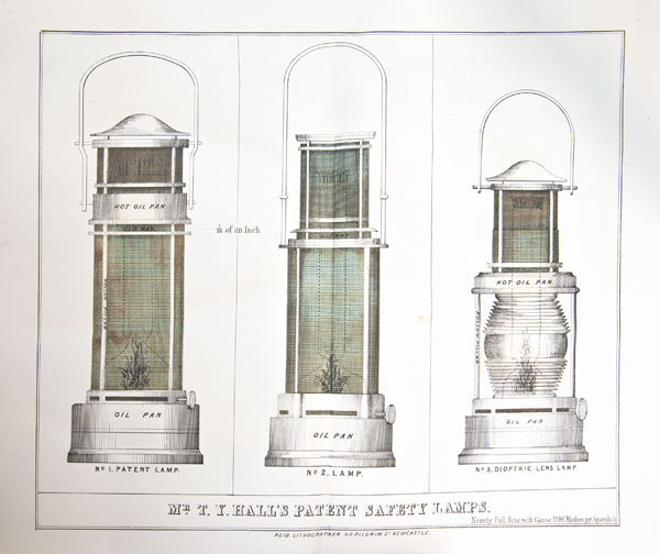 Illustration from the Proceedings of NEIMME, published with the permission of the NEIMME Librarian, Jennifer Hillyard